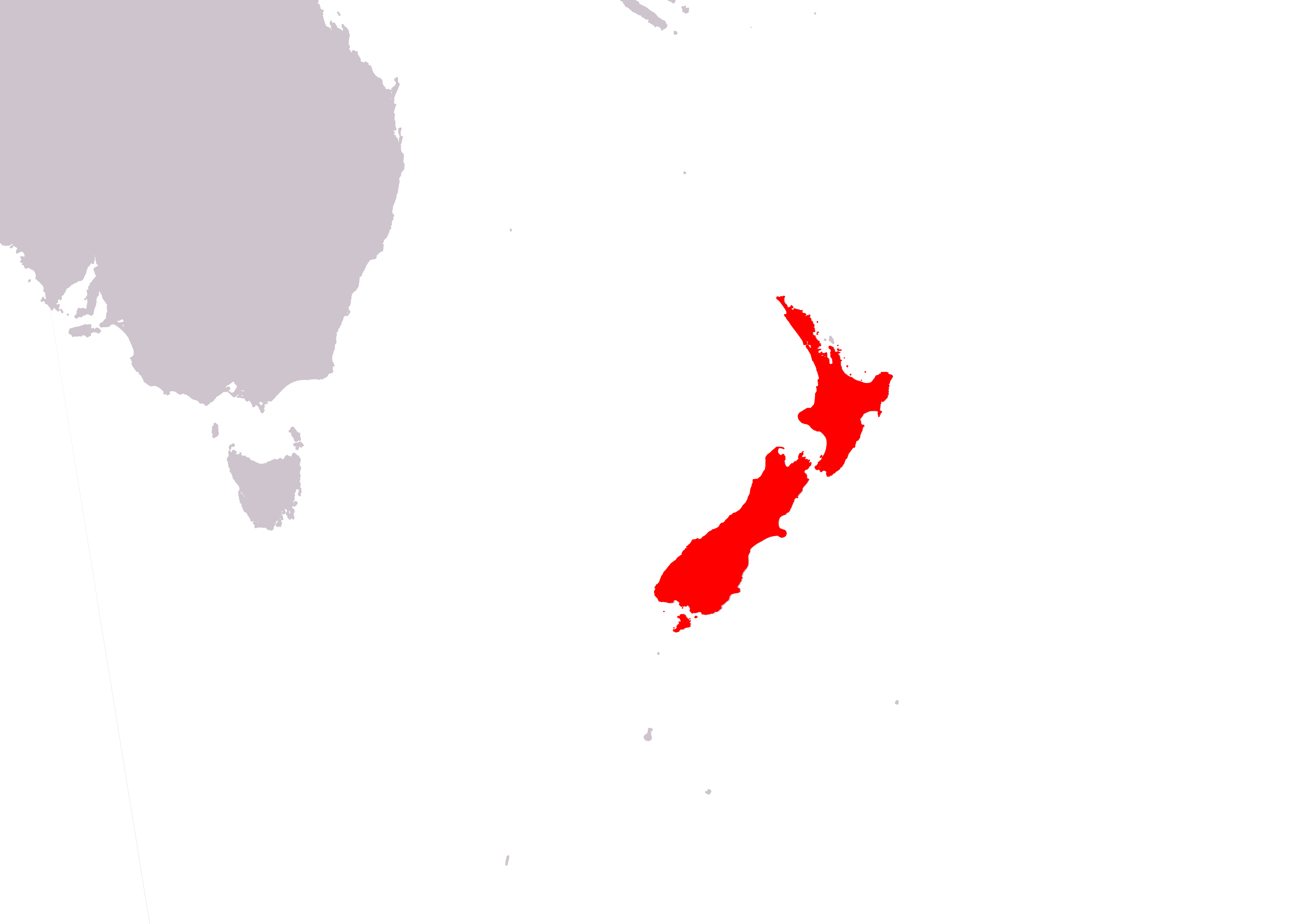 Map of laughing owl (Sceloglaux albifacies) according to IUCN version 2019.1 ; key: Legend: Extinct (#FF0000)